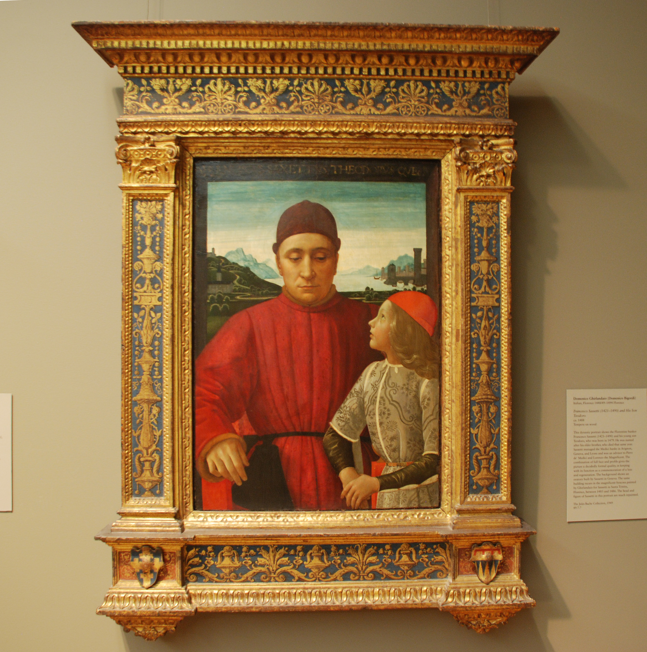 Metropolitan Museum of Art: Francesco Sassetti and His Son Teodoro (painting by Domenico Ghirlandaio, ca 1488)